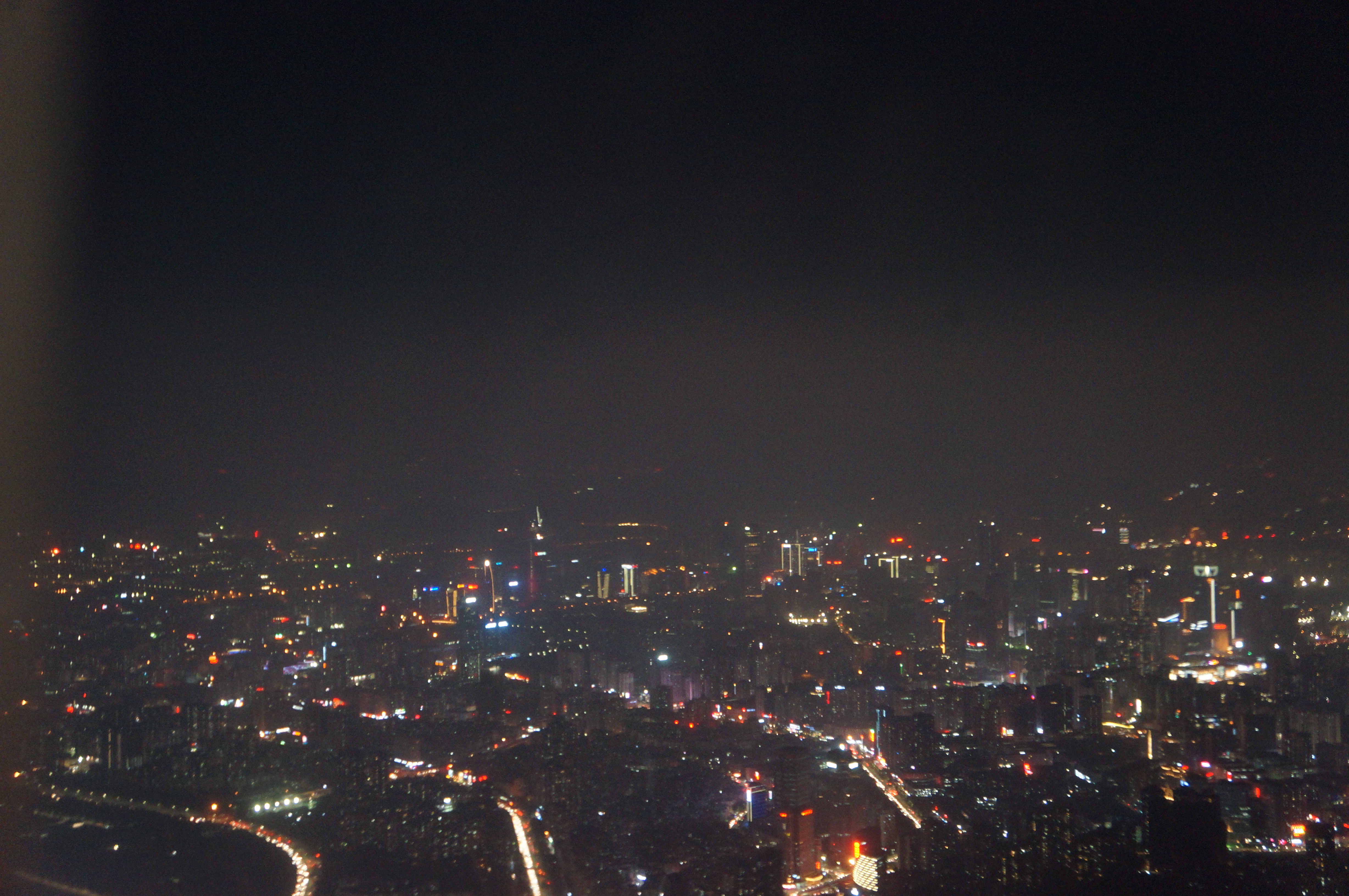 201611 Night in Nanshan District, Shenzhen. Taken from HO1201, the process of SZX Approaching is soo amazingǃ